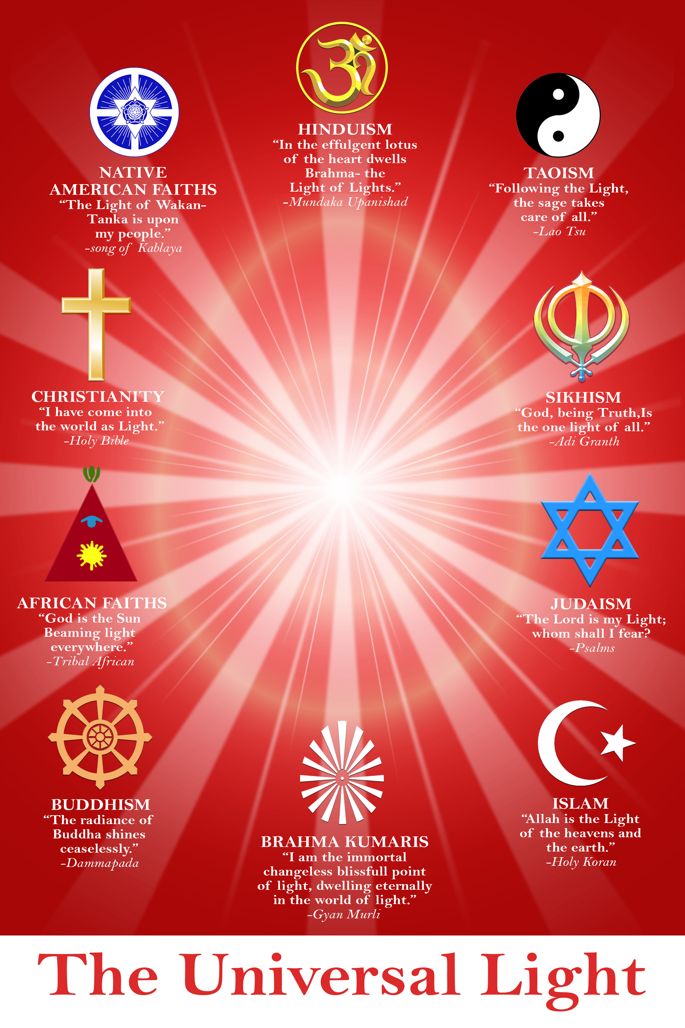 A poster showing the universality of the belief that God is a being of light